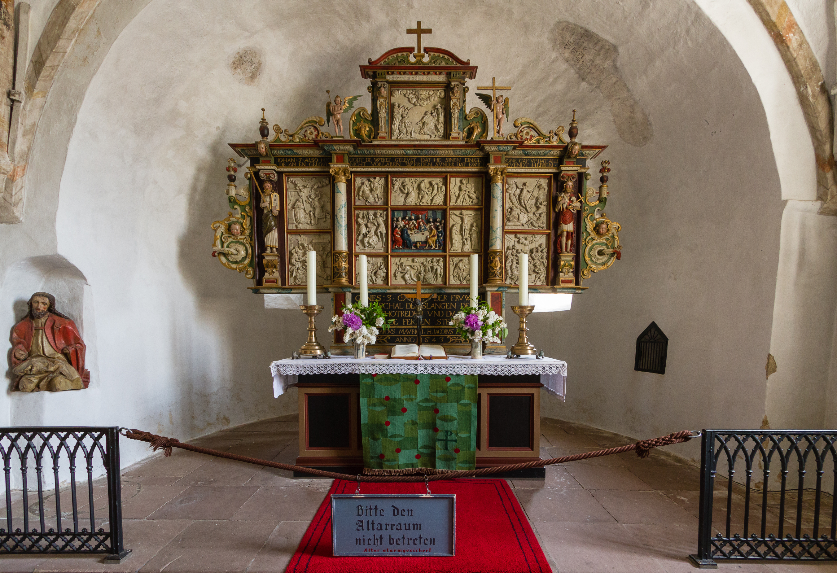 Designation: Church St. Nicolai with equipment Location: Kirchweg Place: Wyk-Boldixum, Collective municipality Föhr-Amrum, District Nordfriesland, Schleswig-Holstein, Federal Republic of Germany Construction time: 13th century Description: Romanesque church building with gothic and baroque extensions Object identification: 1510